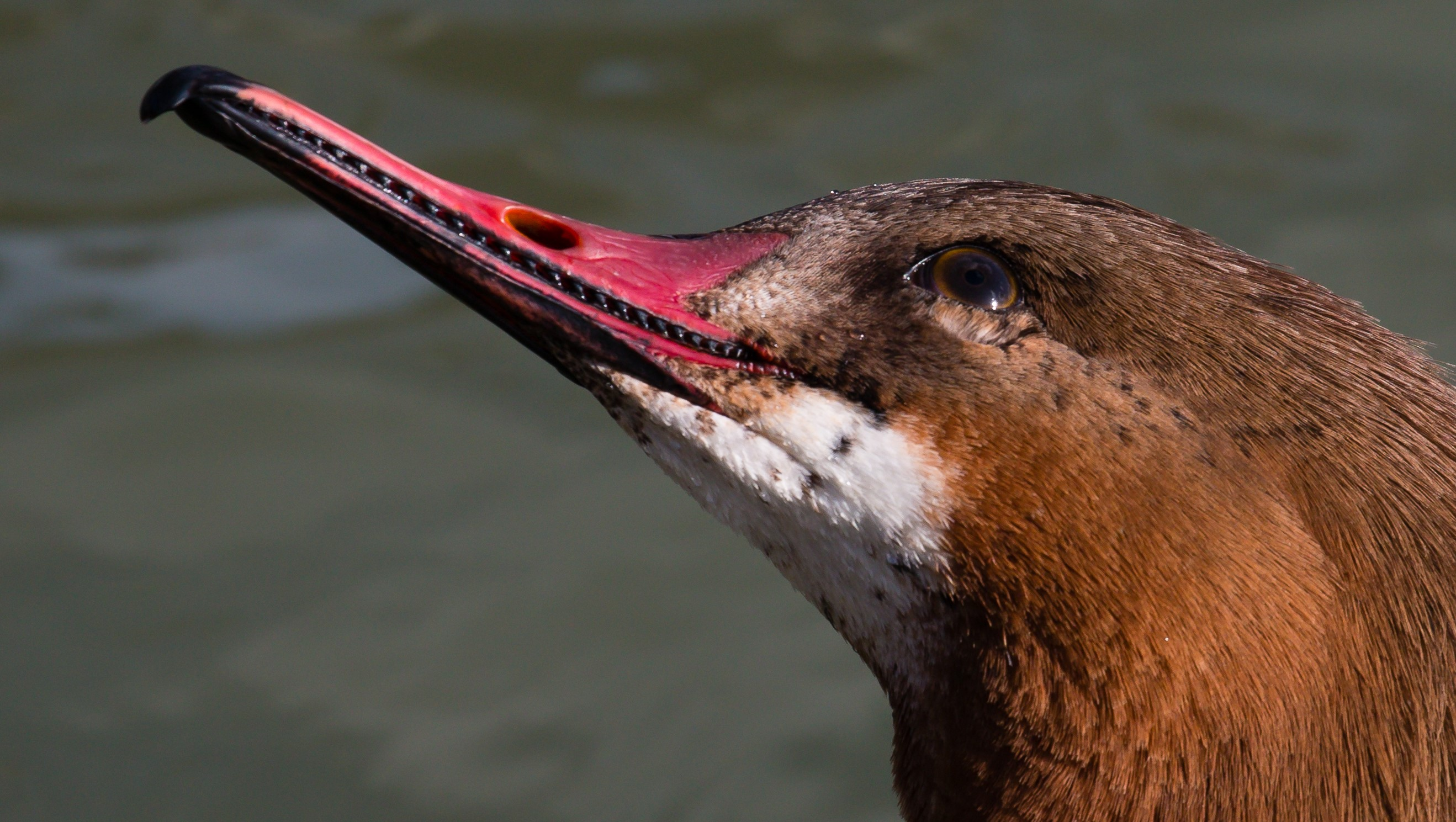 Close up of a female Goosander's bill showing the serrated edge used to help grip onto food. Bern, Switzerland.